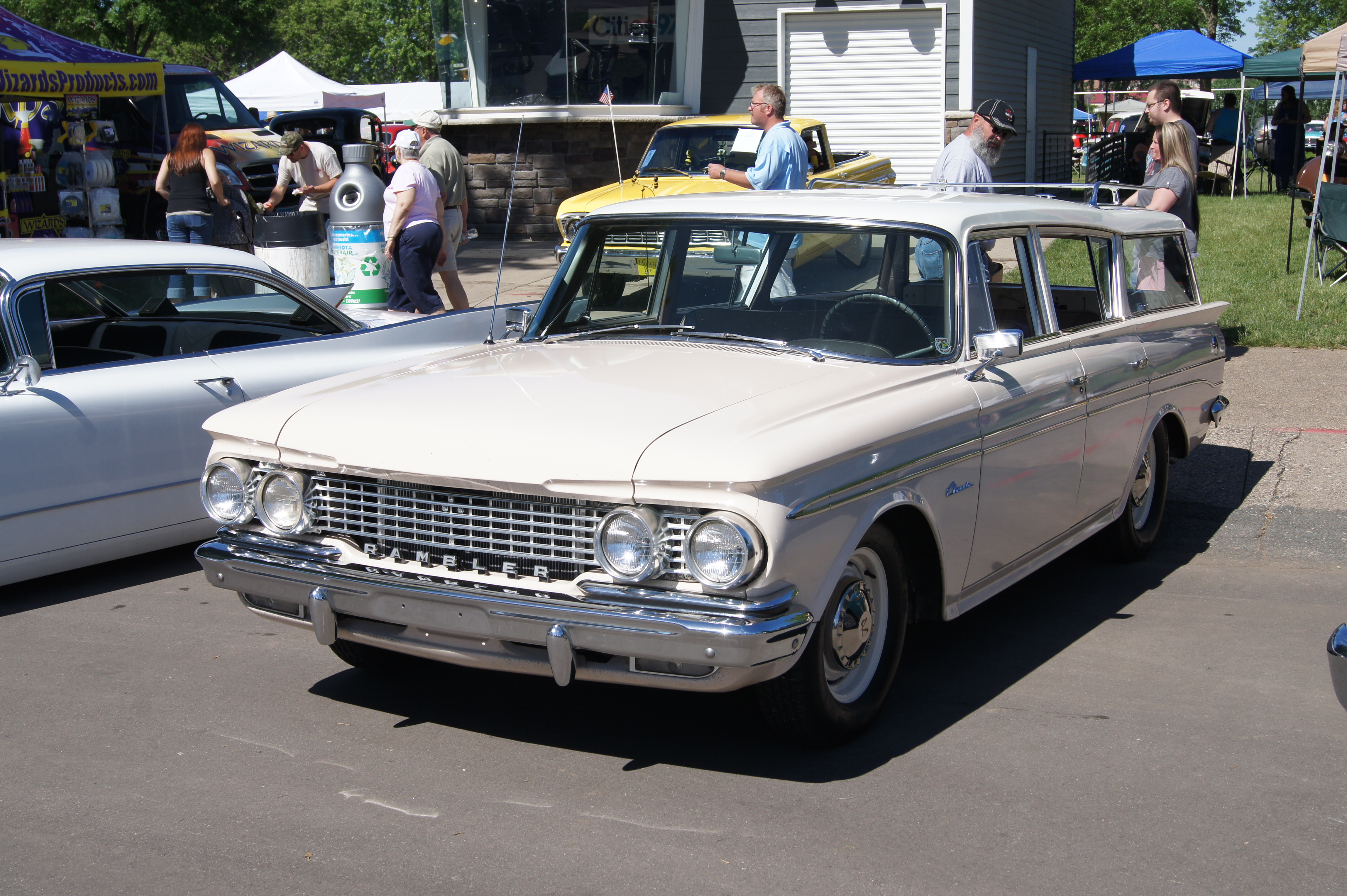 MSRA “BACK TO THE 50′s” 41st Annual June 20-22, 2014 State Fairgrounds St. Paul Minnesota More Car Pictures